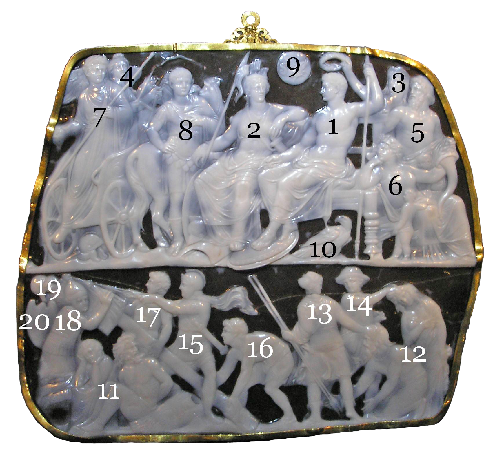 Gemma Augustea, a depiction of Emperor Augustus surrounded by goddesses and allegories. Collection of Greek and Roman Antiquities in the Kunsthistorisches Museum, Vienna. Roman, 9-12 CE. Two-Layered onyx. H: 19 cm. Setting: gold frame, reverse side in ornamented open-work; German, 17th century. AS Inv. No. IX A 79.